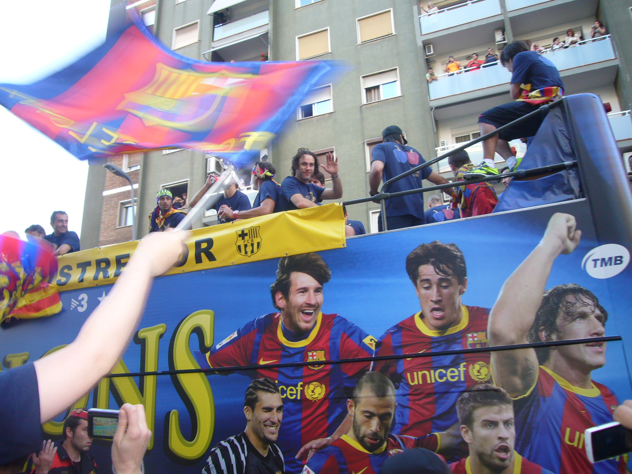 La Liga 2010-2011 celebration. Gabriel Milito cheers the crowd.